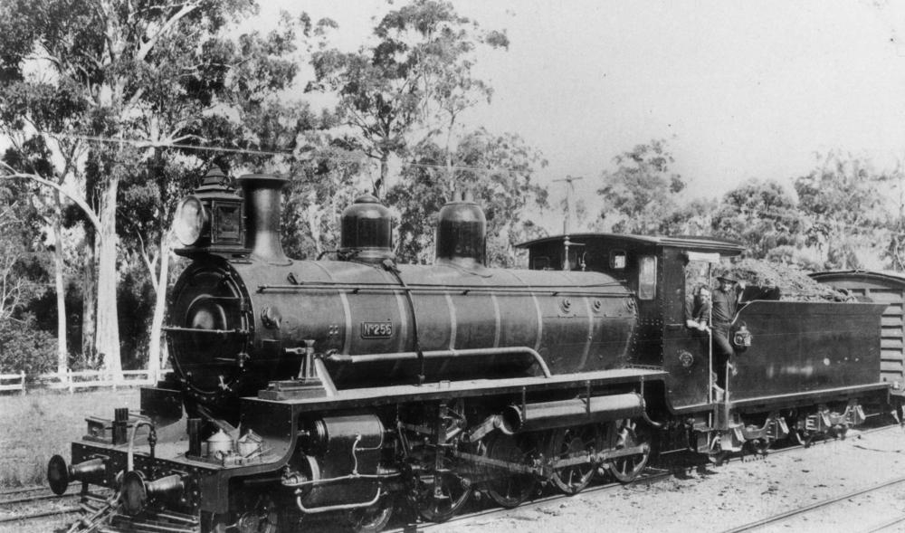 Photographer: Unidentified Date: Undated Location: Queensland, Australia Description: Locomotive no. 256, class C17, was built in 1921 by Evans, Anderson and Phelan, Brisbane. It was written off in 1967. Learn more about this image at the State Library of Queensland: Information about State Library of Queensland’s collection: You are free to use this image without permission. Please attribute State Library of Queensland.